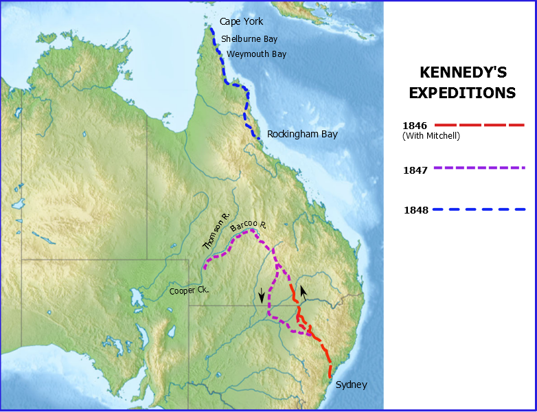 Map of Kennedy's expeditions. Map source User:Виктор В